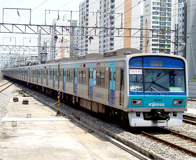 Korea Railroad's electric train series 2000 for Seoul subway line 4